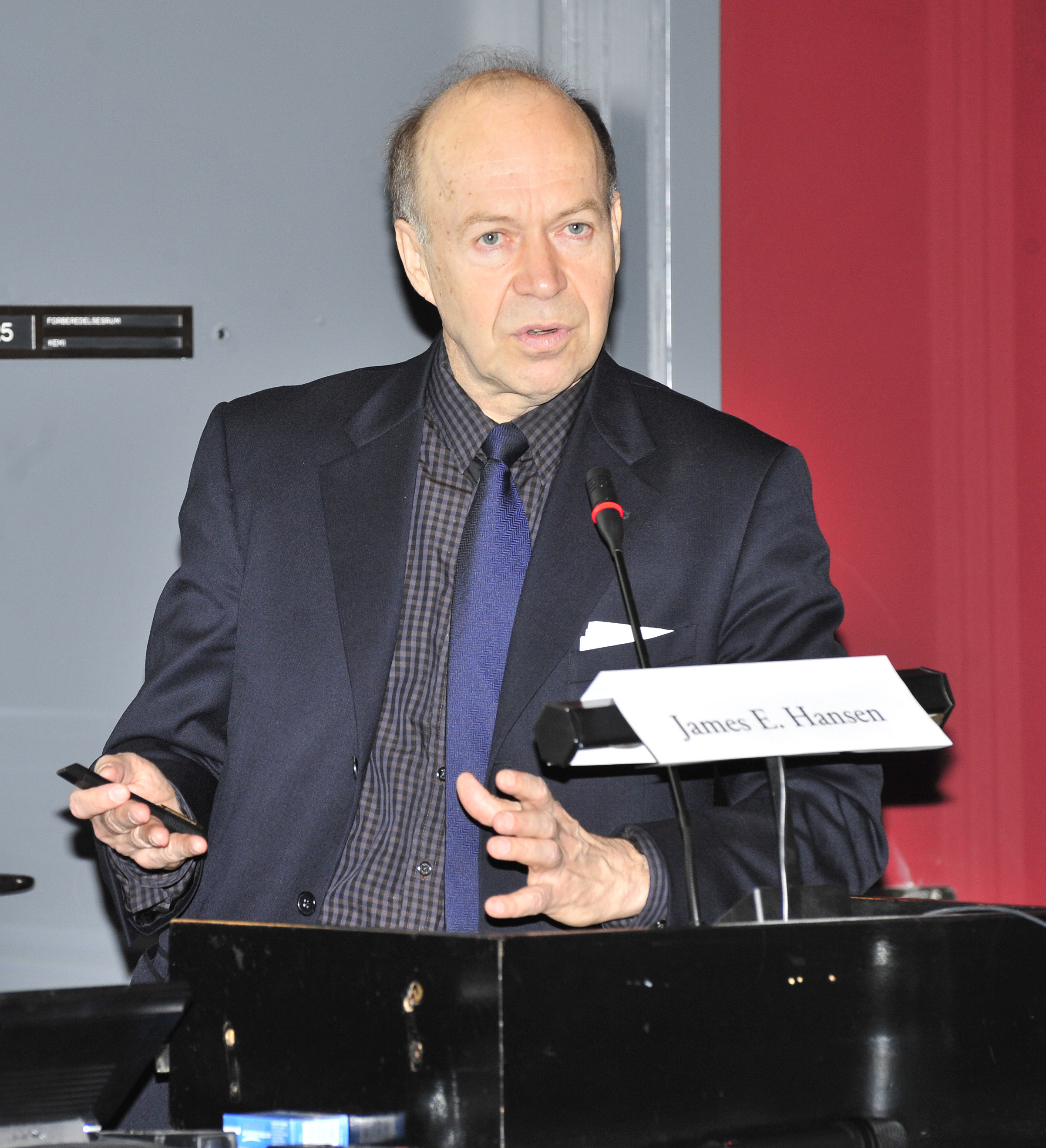 Taken at the Energy Crossroads conference in Denmark on 12 March 2009.